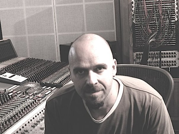 Music producer Mike Spencer at work in his studio